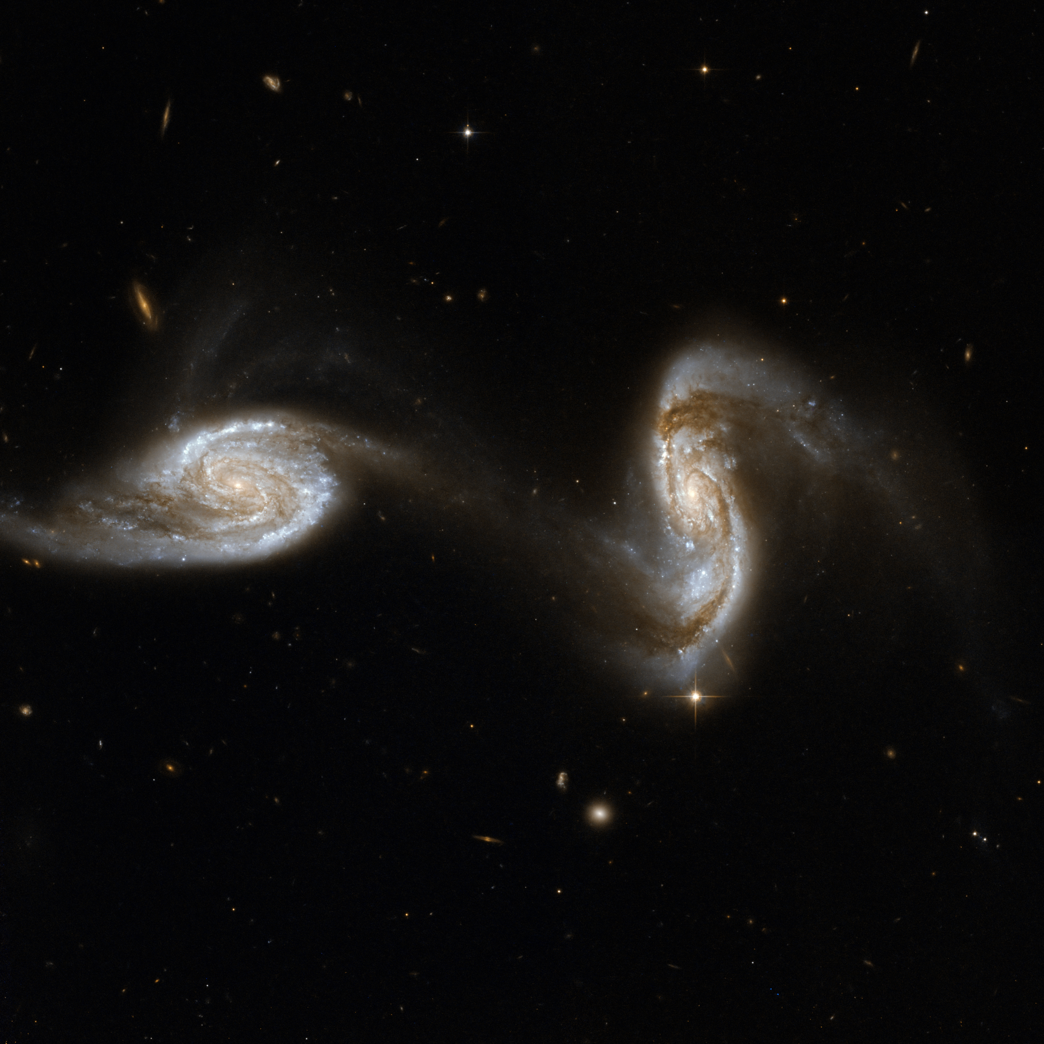 NGC 5257/8 (Arp 240) is an astonishing galaxy pair, composed of spiral galaxies of similar mass and size, NGC 5257 and NGC 5258. The galaxies are visibly interacting with each other via a bridge of dim stars connecting the two galaxies, almost like two dancers holding hands while performing a pirouette. Both galaxies harbor supermassive black holes in their centers and are actively forming new stars in their disks. Arp 240 is located in the constellation Virgo, approximately 300 million light-years away, and is the 240th galaxy in Arp's Atlas of Peculiar Galaxies. With the exception of a few foreground stars from our own Milky Way all the objects in this image are galaxies. This image is part of a large collection of 59 images of merging galaxies taken by the Hubble Space Telescope and released on the occasion of its 18th anniversary on 24th April 2008. About the objectObject nameNGC 5257, NGC 5257/8, Arp 240, VV 055, KPG 389Object descriptionInteracting GalaxiesPosition (J2000)13 39 55.68 +00 50 03.9ConstellationVirgoDistance300 million light-years (100 million parsecs)About the dataData descriptionThe Hubble image was created using HST data from proposal 10592: A. Evans (University of Virginia, Charlottesville/NRAO/Stony Brook University)InstrumentACS/WFCExposure date(s)December 20, 2001Exposure time33 minutesFiltersF435W (B) and F814W (I)